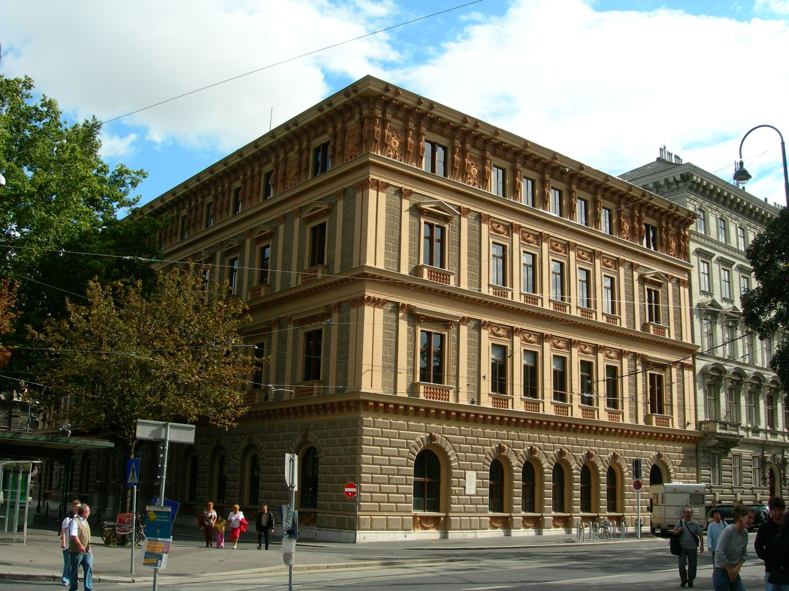 Palais Epstein close to the parliament building in Vienna